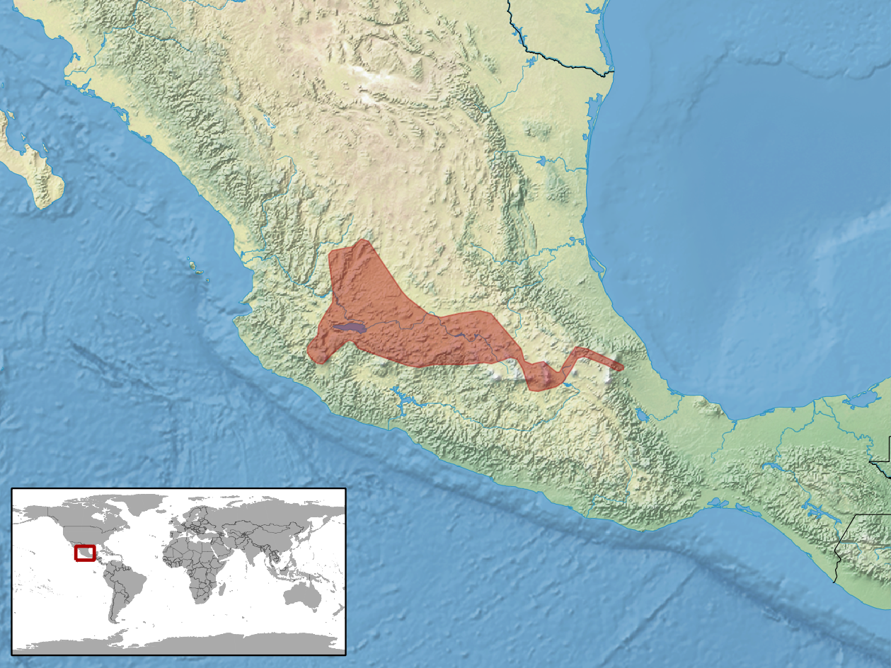 geographic distribution of Crotalus polystictus (Native: Mexico)